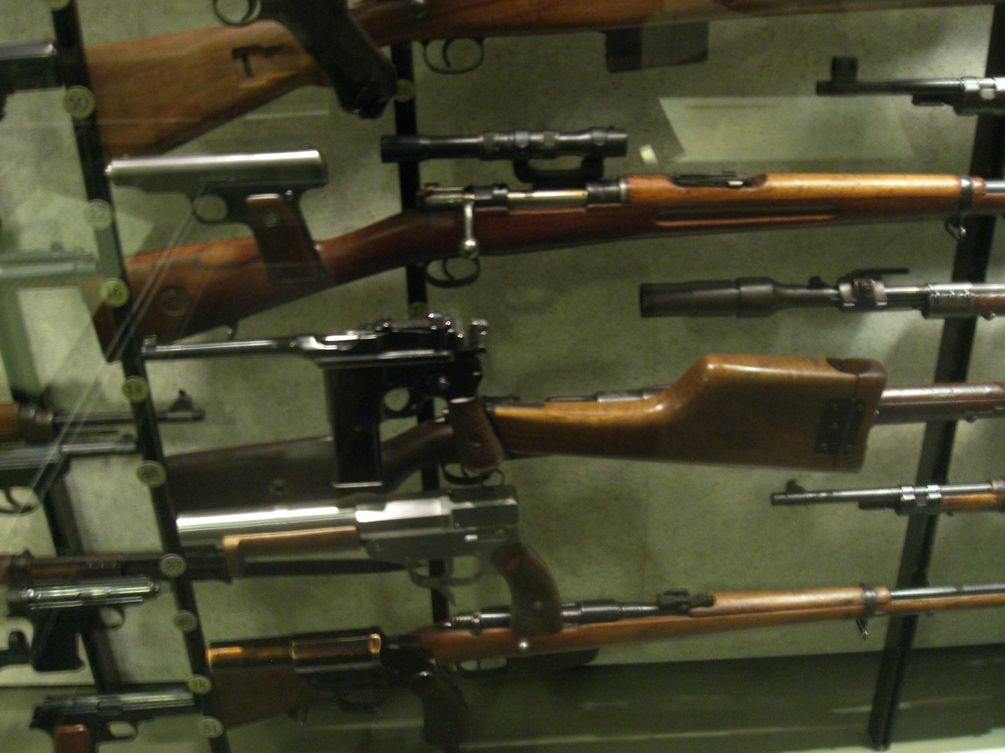 A Mauser C96 Schnellfeuer with stock. Taken at the National Firearms Museum